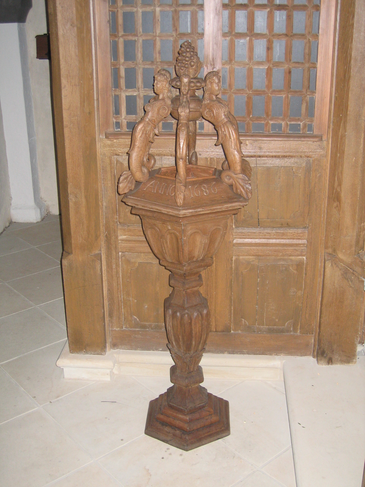 Baptismal bowls (?) of St. Ulricus church in Preußisch Oldendorf, District of Minden-Lübbecke, North Rhine-Westphalia, Germany.